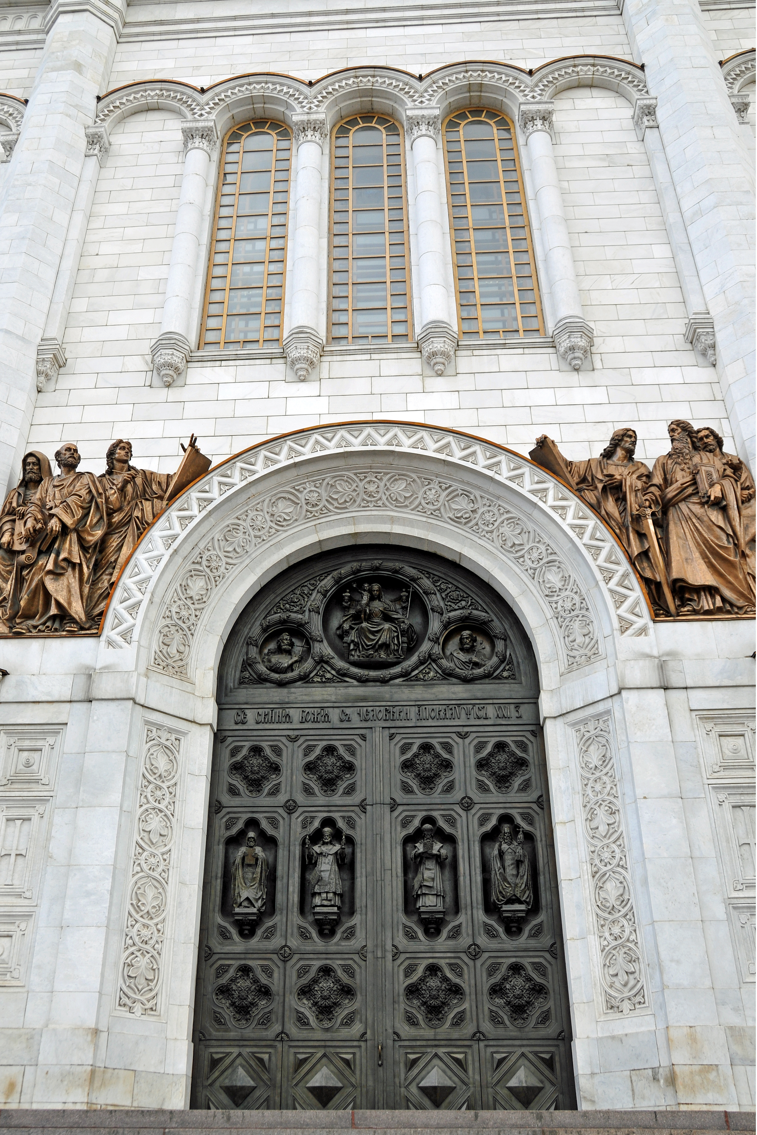 The Cathedral is on the bank of the Moskva River, a few blocks west of the Kremlin. It is the tallest Eastern Orthodox church. On 5 December 1931, by order of Stalin's minister Kaganovich, the Cathedral of Christ the Saviour was dynamited and reduced to rubble. With the end of the Soviet rule, the Russian Orthodox Church received permission to rebuild and it was consecrated on the Transfiguration day, 19 August 2000.